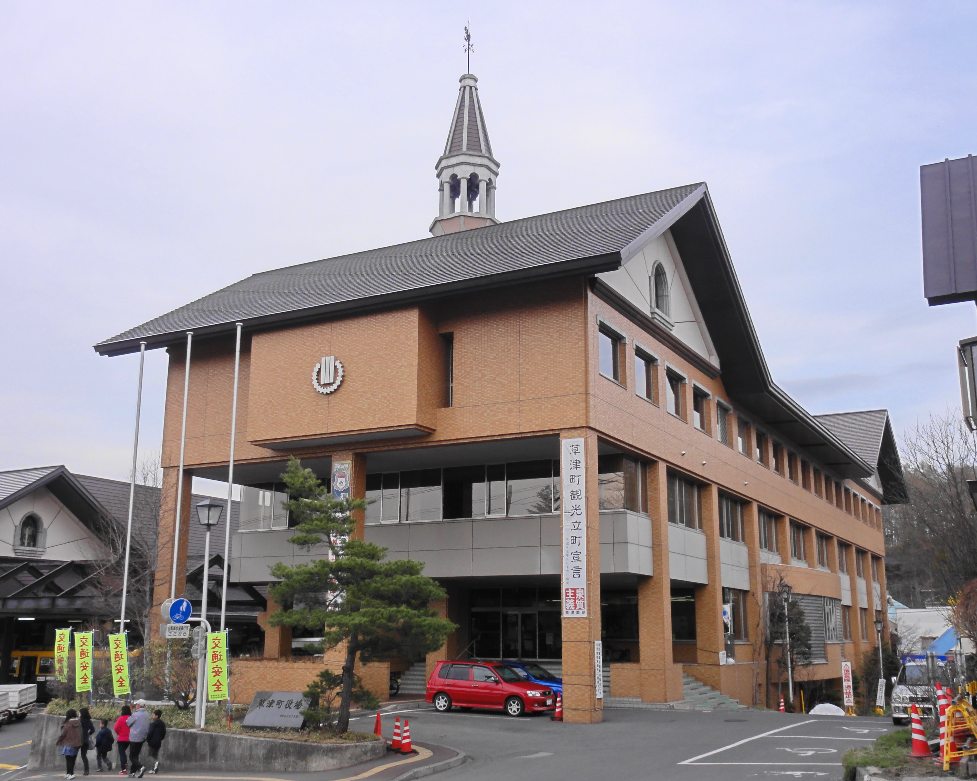 Kusatsu town office,Gunma prefecture,Japan